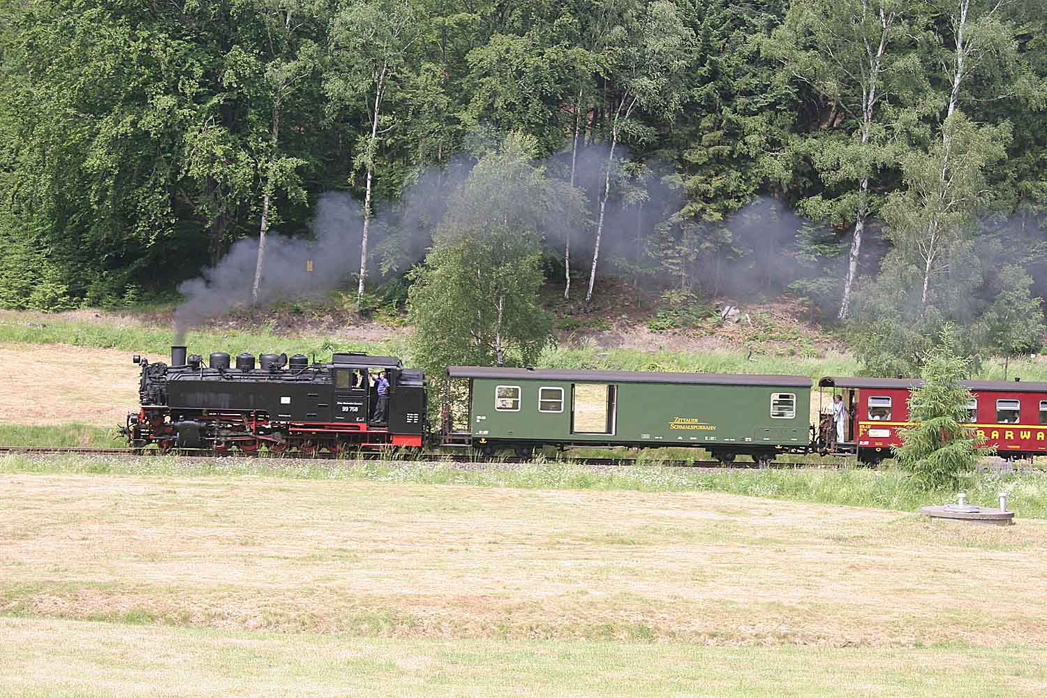 train of narrow gauge railway near Oybin, Saxony, Germany